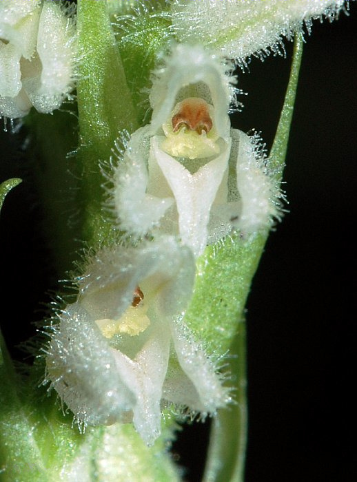 Goodyera repens, flower close up, Rhön, Germany